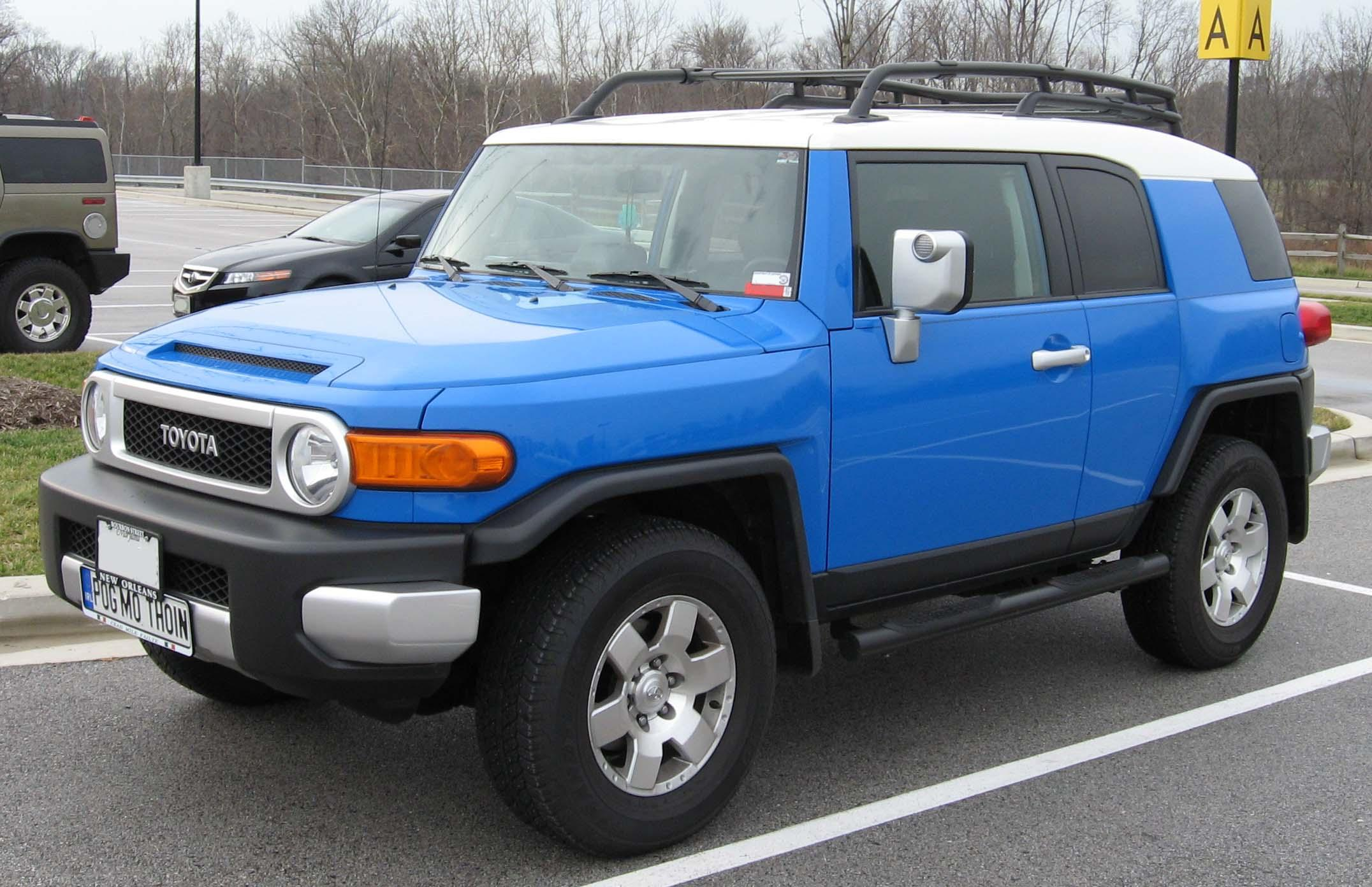 2007 Toyota FJ Cruiser photographed in USA.